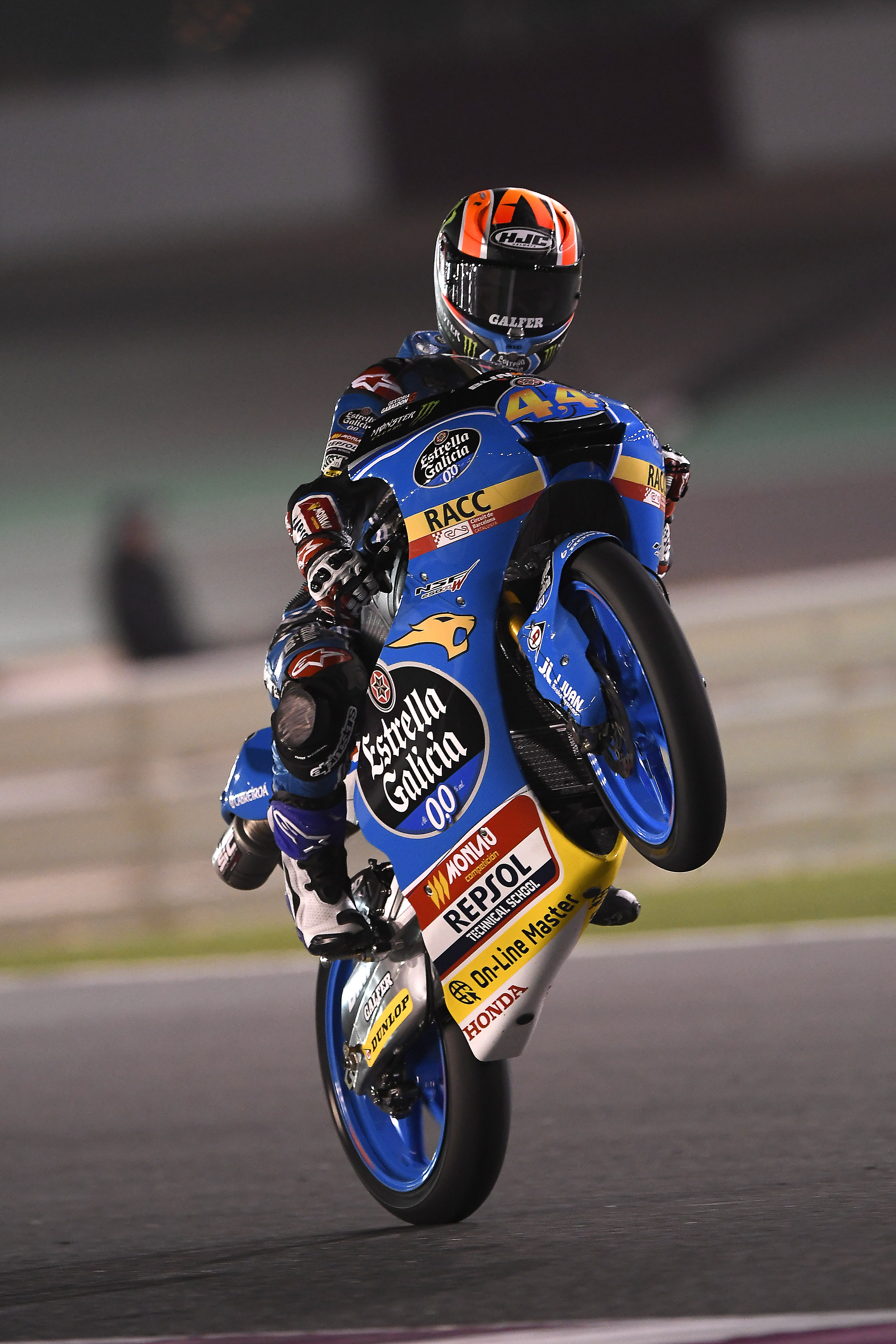 Arón Canet at Qatar Gran Prix of 2017